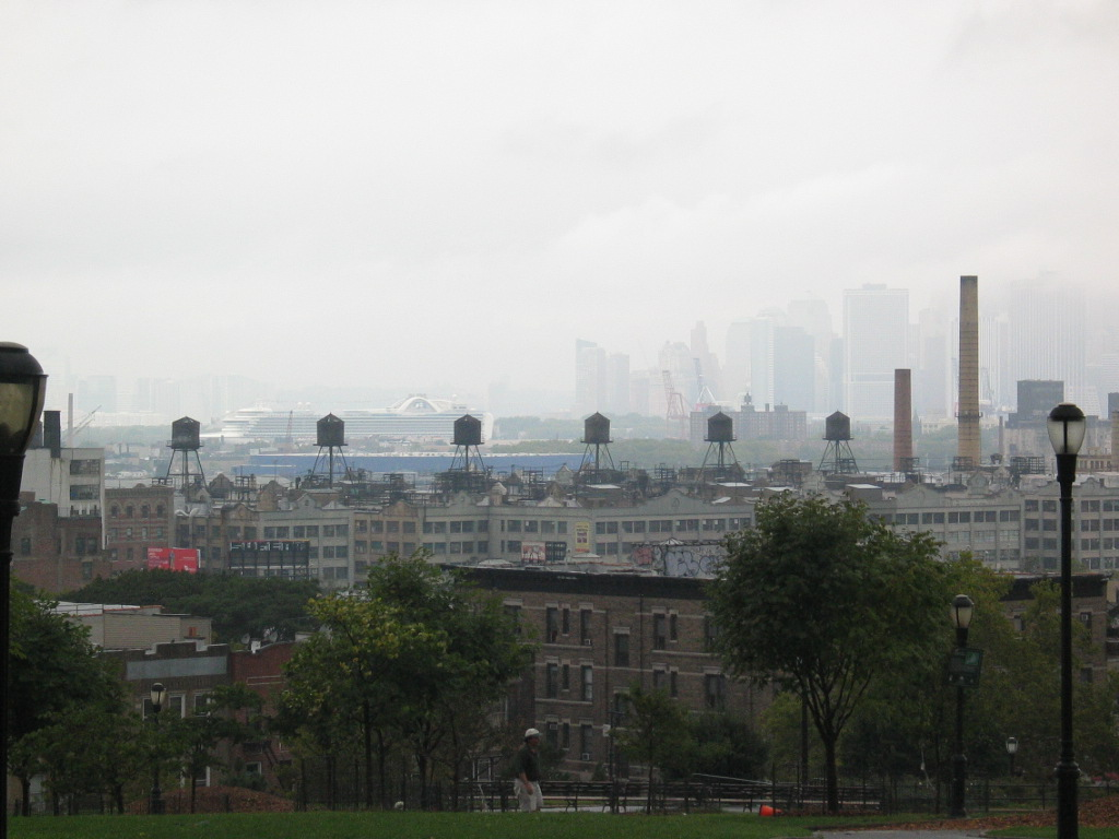 Overlooking the western part of Brooklyn, with a distant view of Manhattan, as seen from Sunset Park itself. Seen in the middle ground are some of the industrial buildings of Bush Terminal – Industry City.